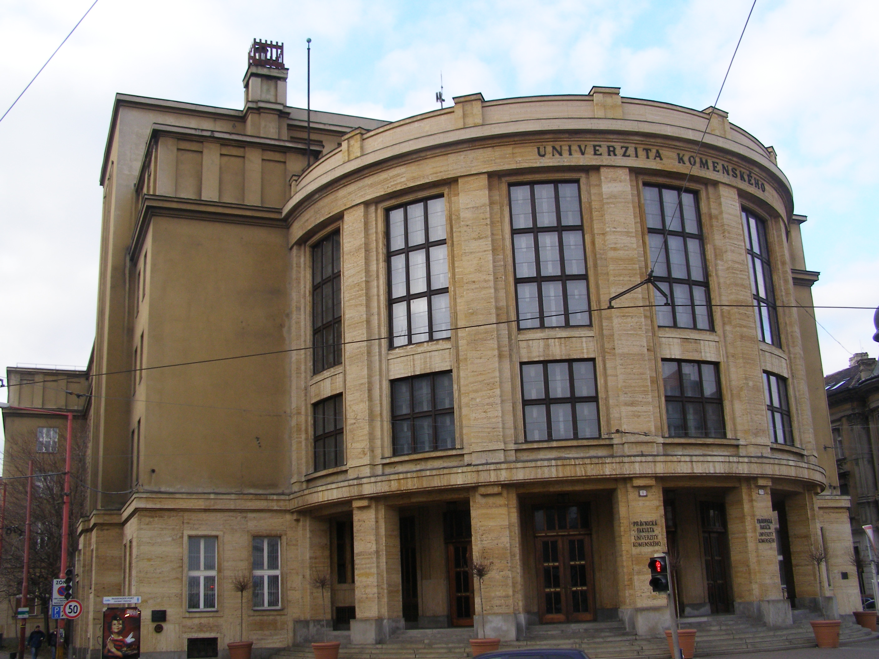 Comenius University, Bratislava